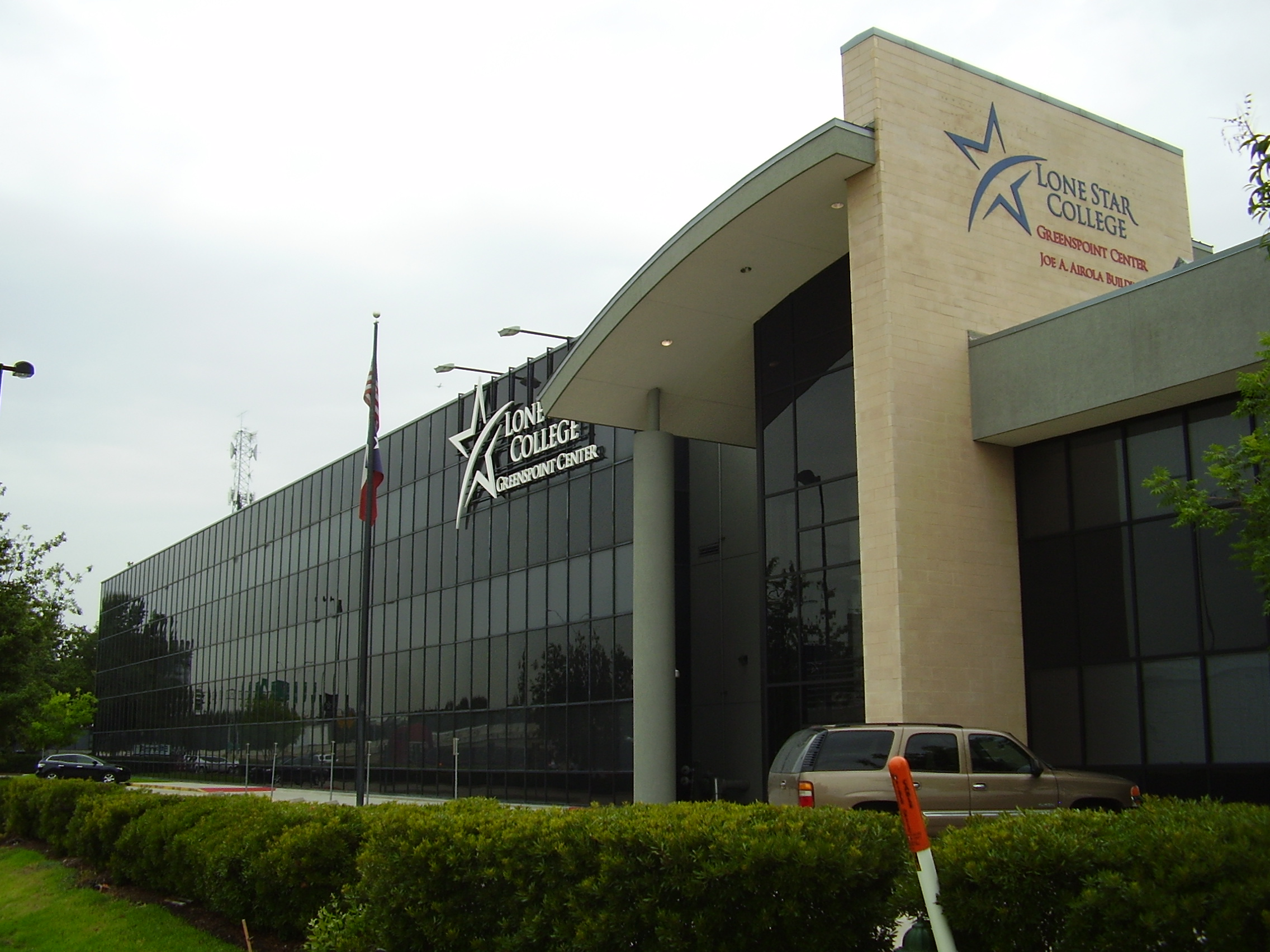 Lone Star College–North Harris Greenspoint Center Joe A. Airola Building